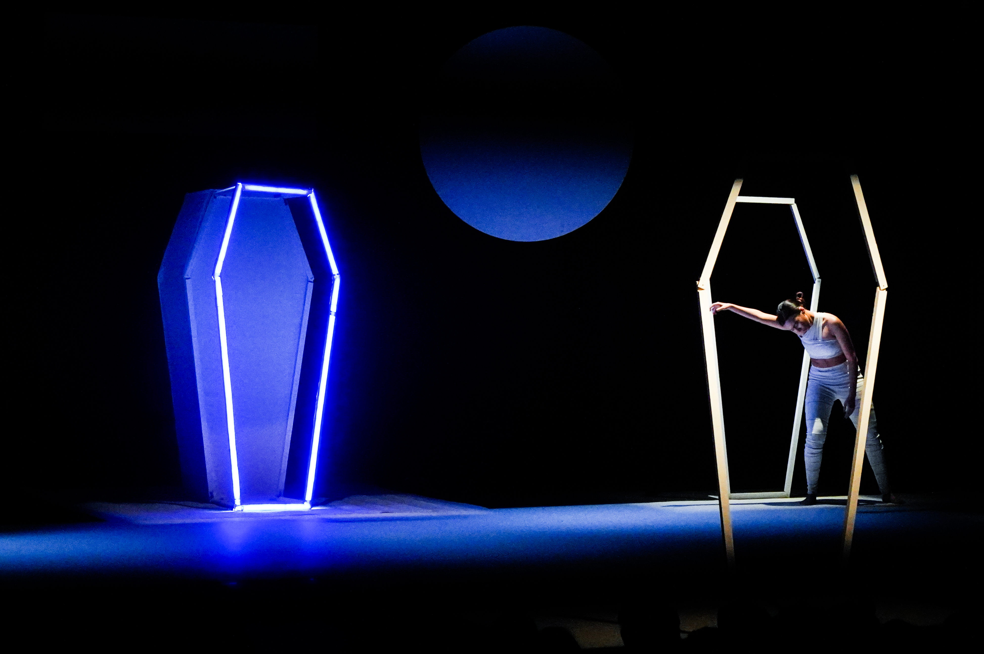 Photographed during one of the performances of the Tunisian play TranstyX, this image shows the main character, Tina, connecting with her previous lives.